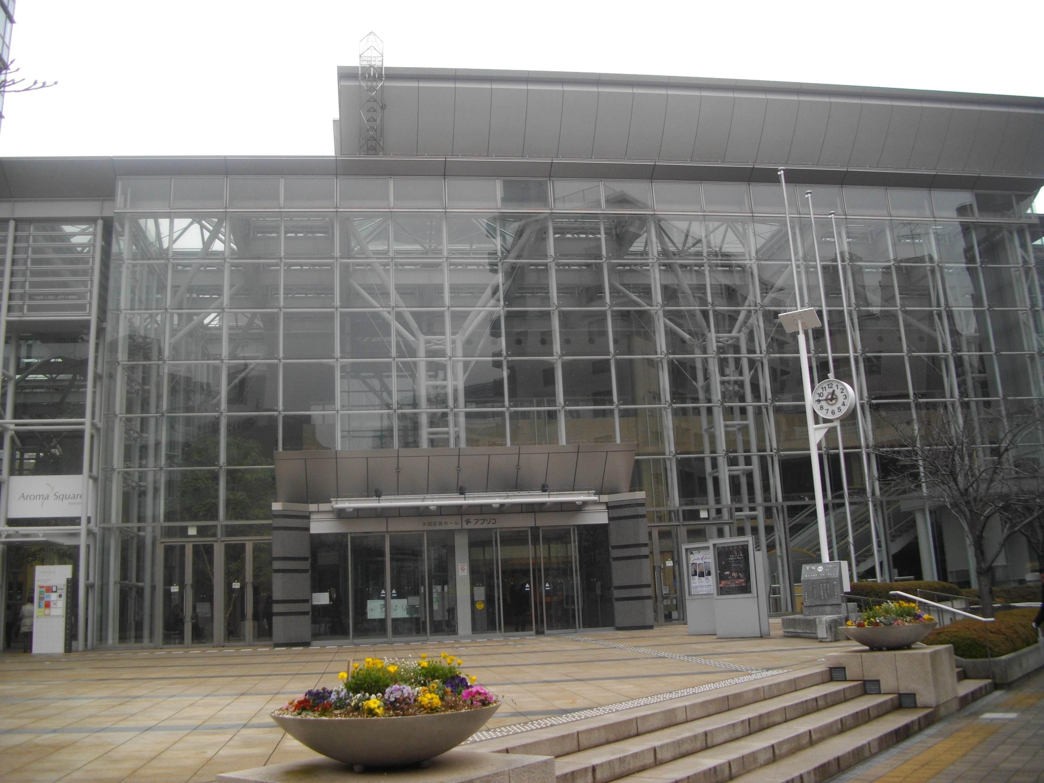 A photo of Ota City Hall Aprico(A concert hall in Kamata,Tokyo.)Kamata,Ota-ku,Tokyo,Japan.